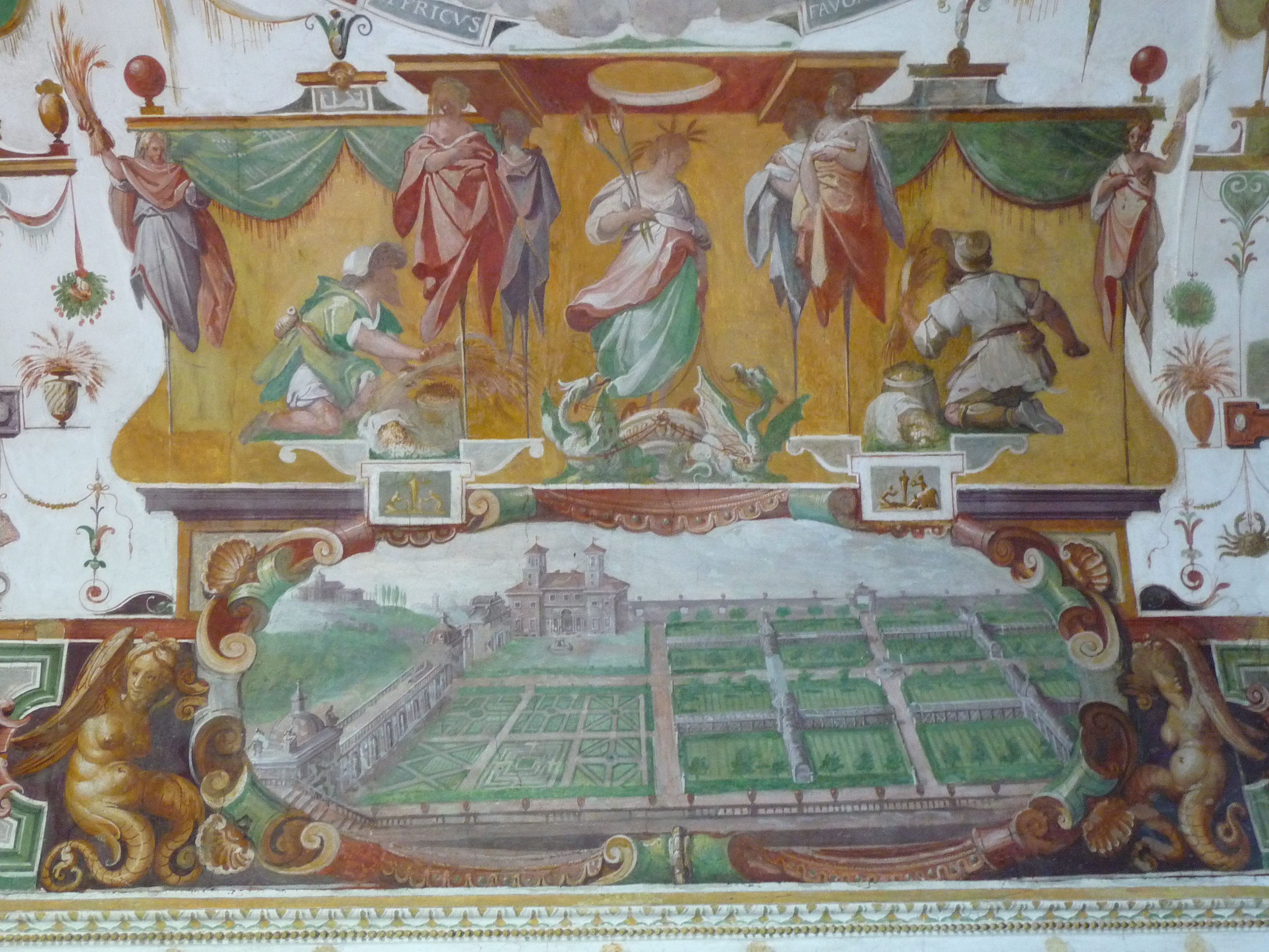 Fresco in the garden house, Villa Medici in Rome